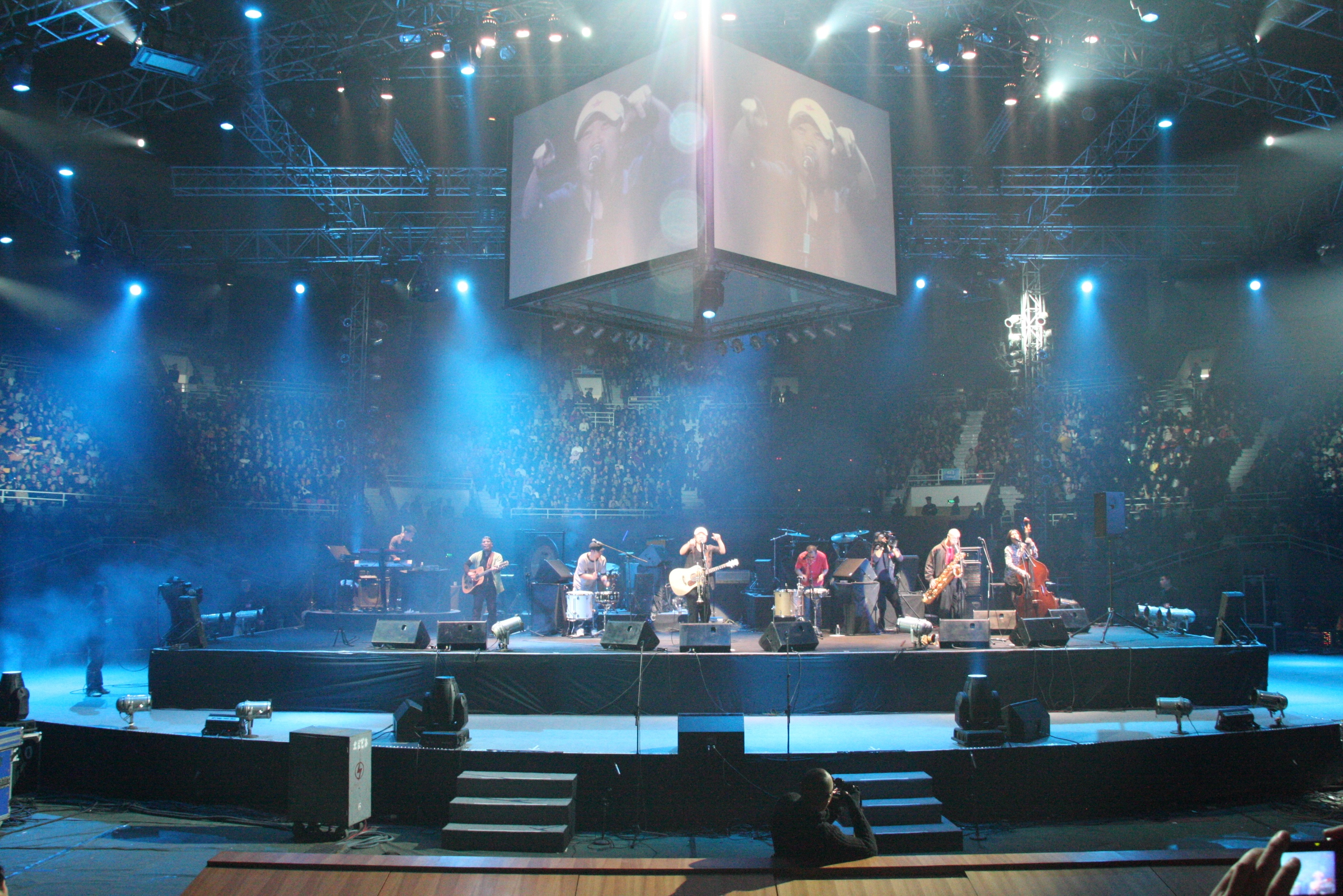 Cui Jian 崔健 (center), the "Godfather of Chinese rock'n'roll", performing in the Beijing Workers' Stadium on January 5, 2008. His very first concert of 1986, also in the same stadium, signified the birth of Chinese rock'n'roll. The photograph was taken by the legendary Chinese IT mastermind, entrepreneur, photographer, and blogger, Keso 洪波, whose generosity is highly appreciated.